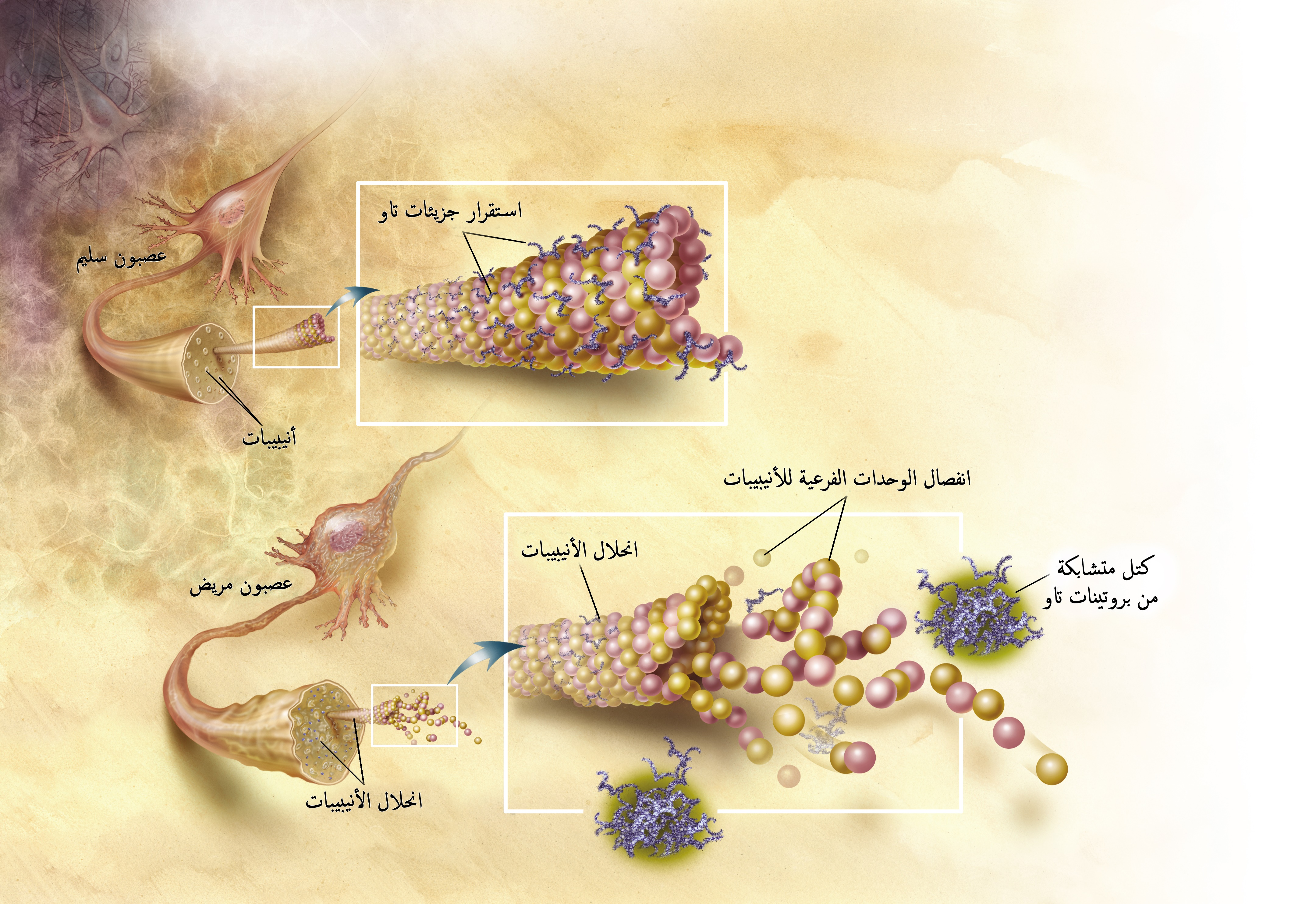 Diagram of how microtubules desintegrate with Alzheimer's disease